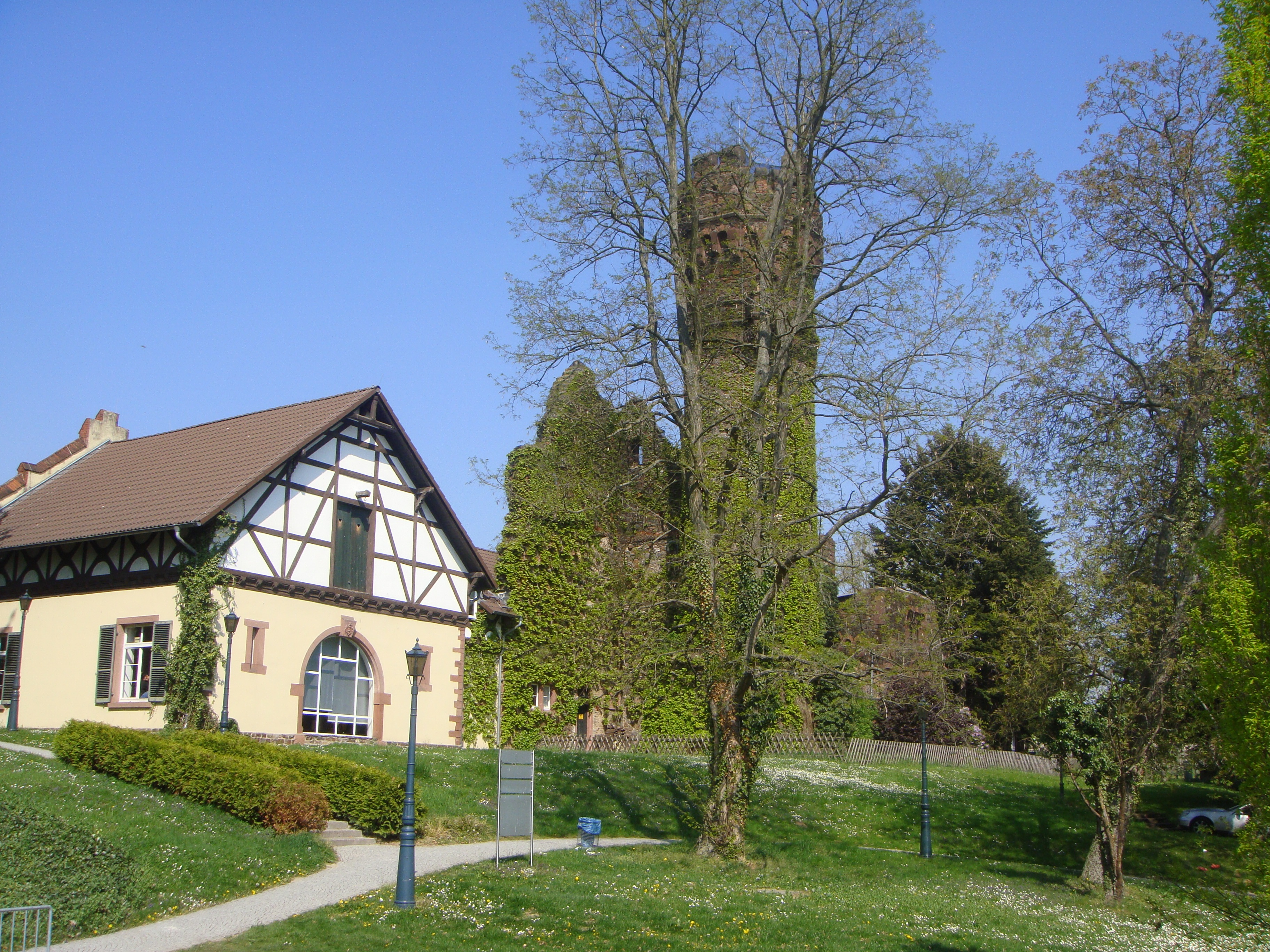 Campus of EBS Business School